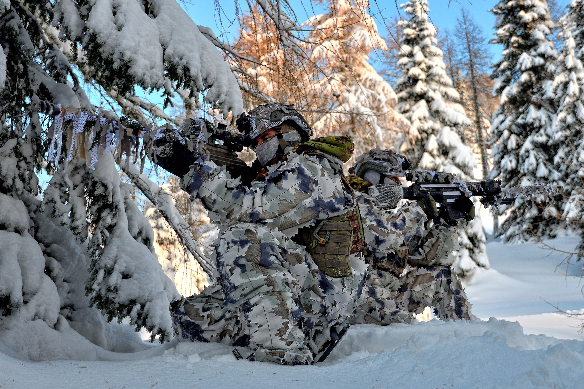 Italian Army 8th Alpini Regiment sniper team in the snow during exercise Abbey Road 2019